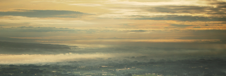 A picture taken from Mount Galunggung, showing the landscape of the Ten thousand hills of Tasikmalaya